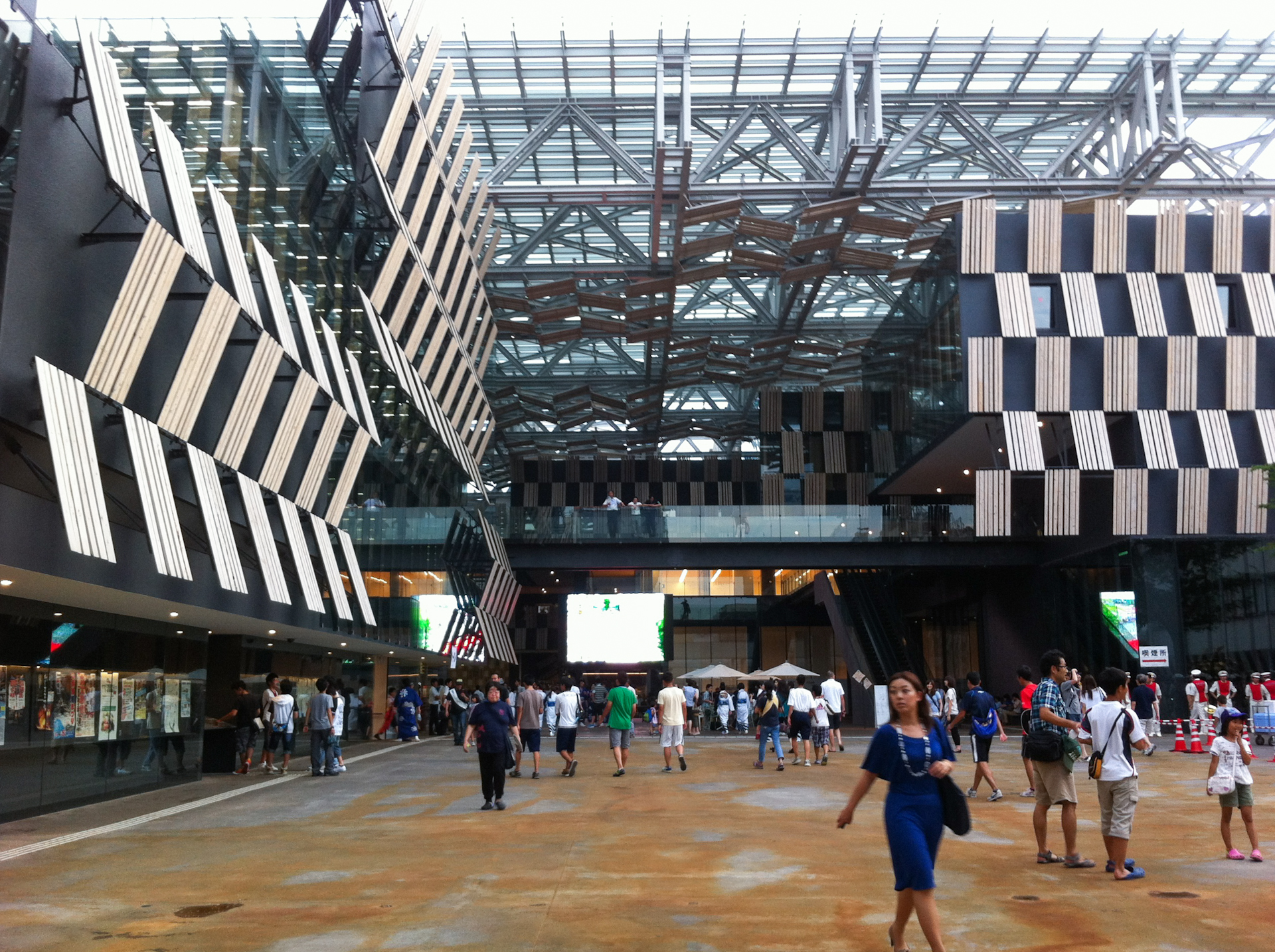 Ao-re Nagaoka in Nagaoka, Niigata Prefecture, Japan